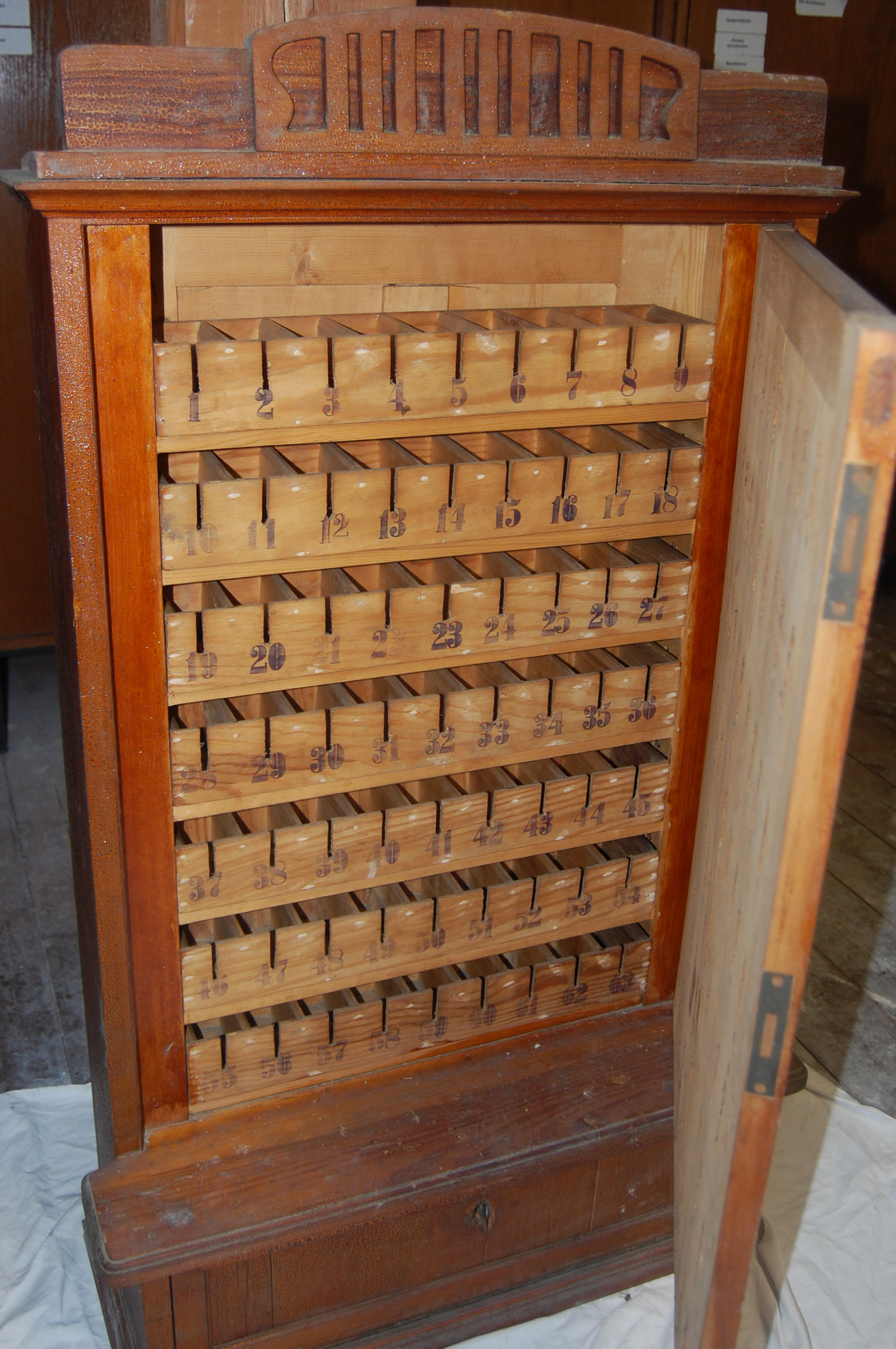 Moneybox, Christmasclub "Einigkeit Bierden", Lower Saxonia, 1930s